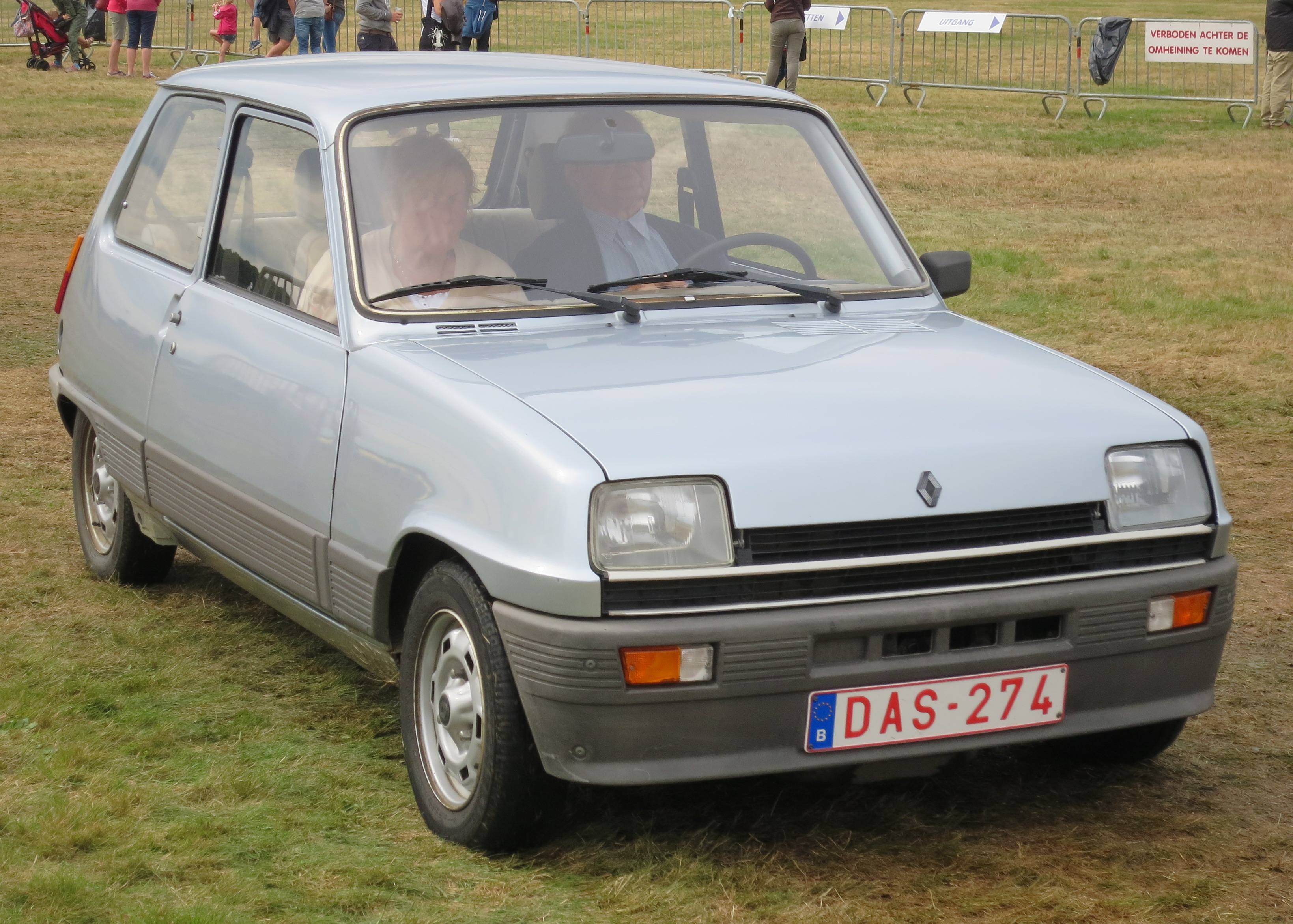 Renault 5 GTL in Belgium